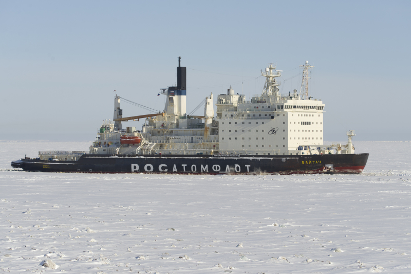 Nuclear-powered icebreaker Vaygach outside the port of Sabetta